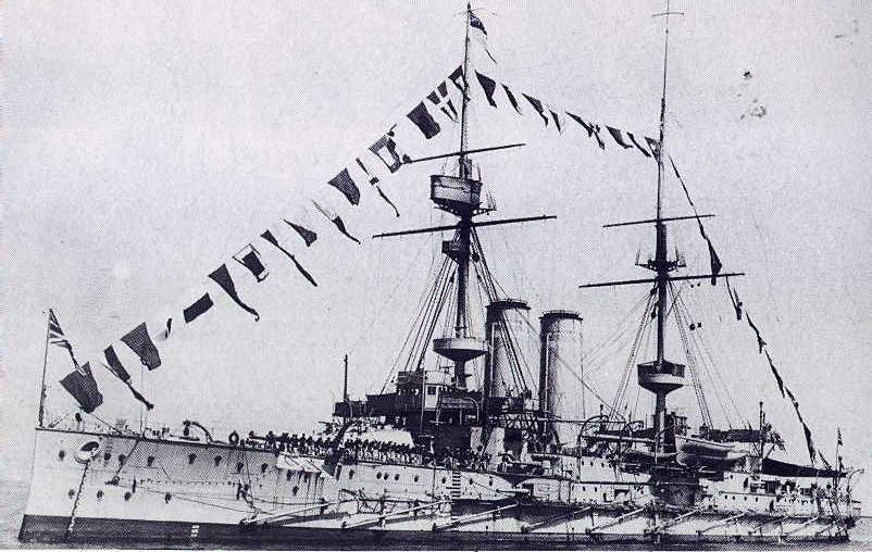 HMS Duncan (1901} dressed overall in June 1908